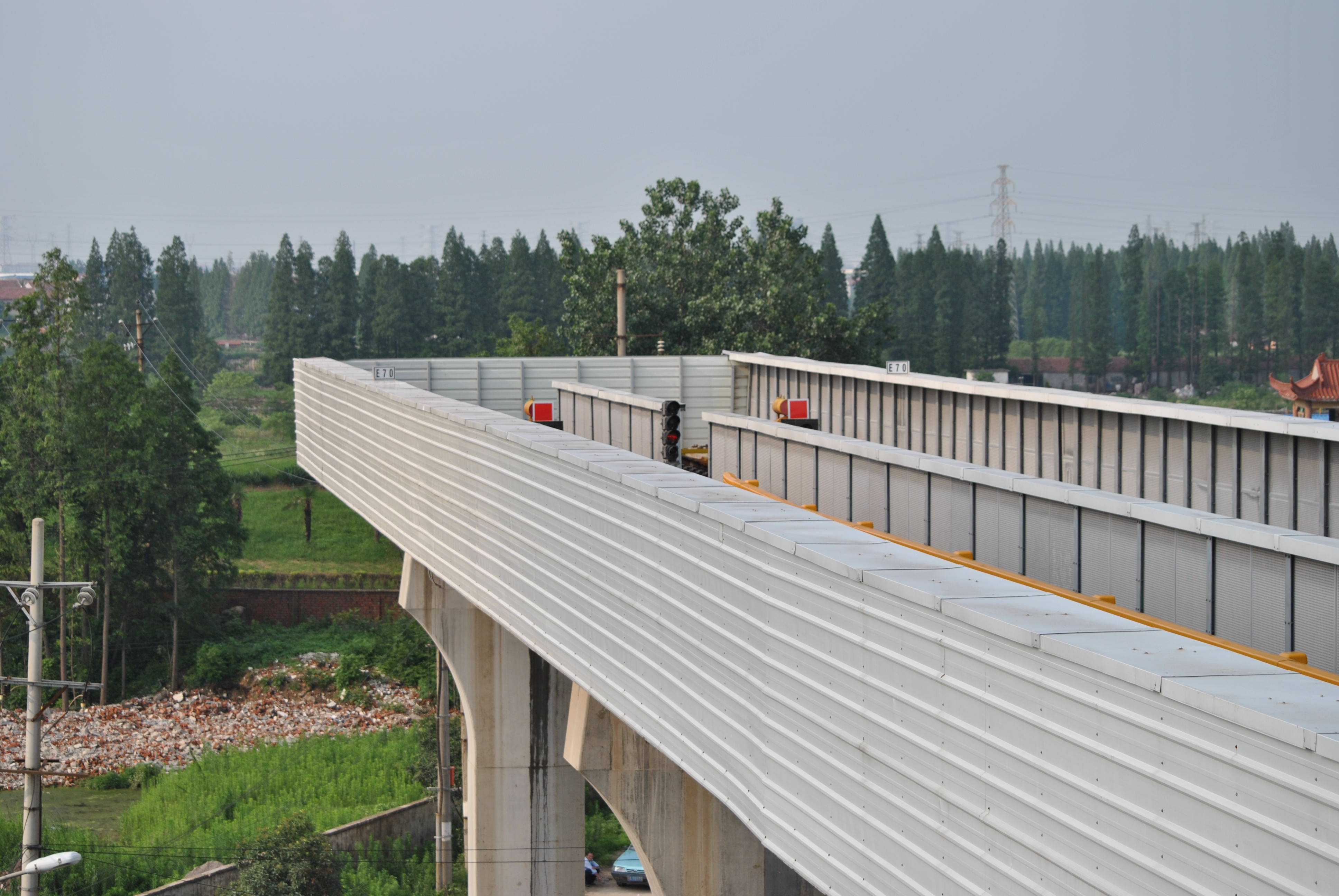 A metro station in Wuhan